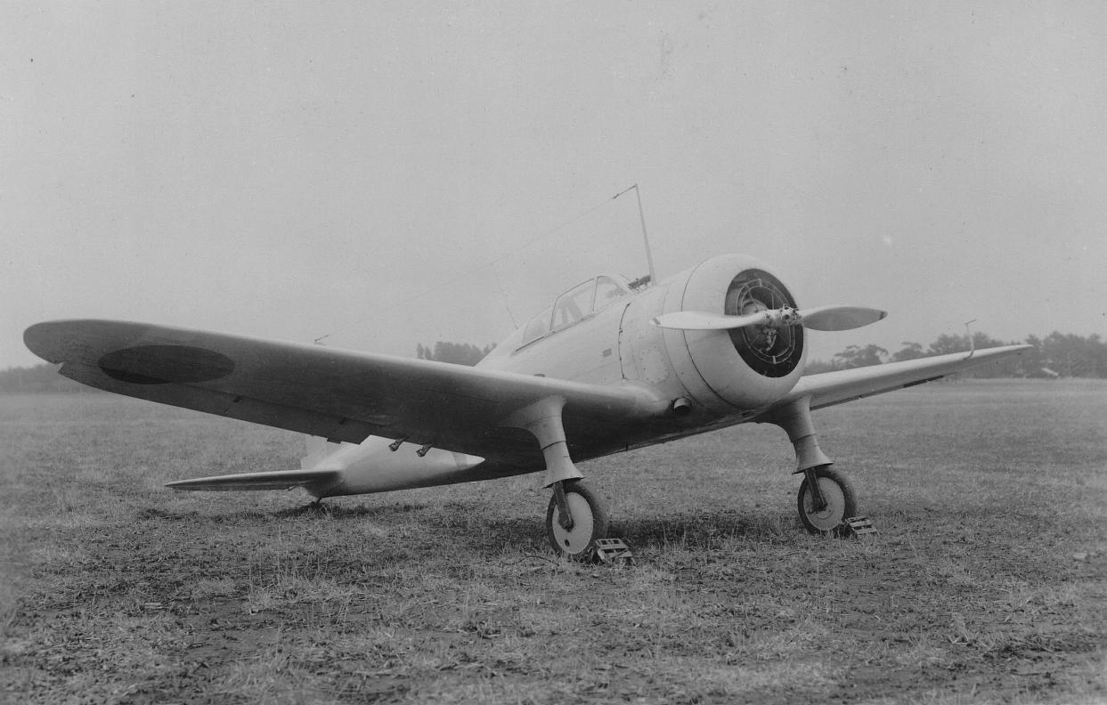 Nakajima Ki-27 fighter aircraft.